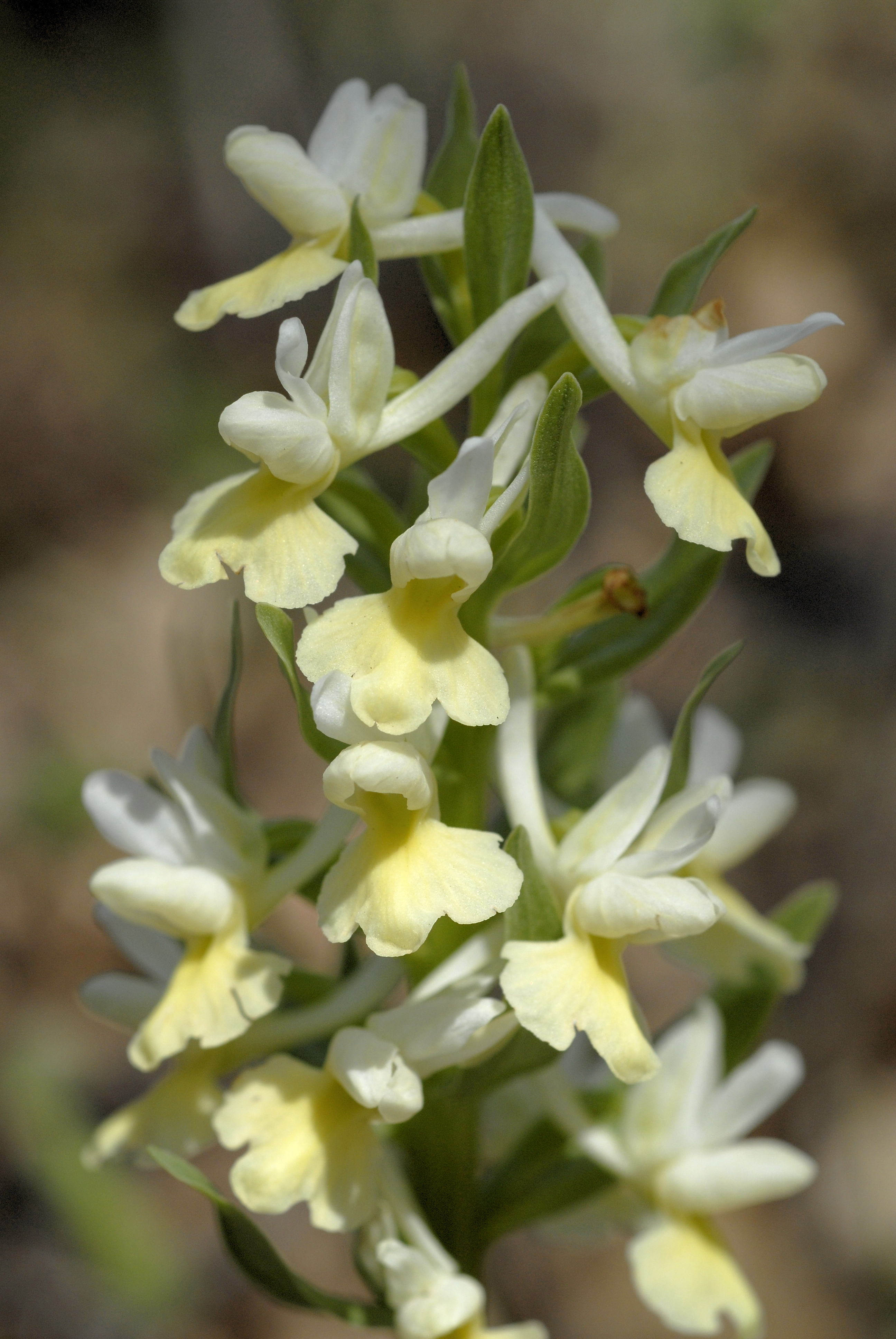 Dactylorhiza romana Etna north